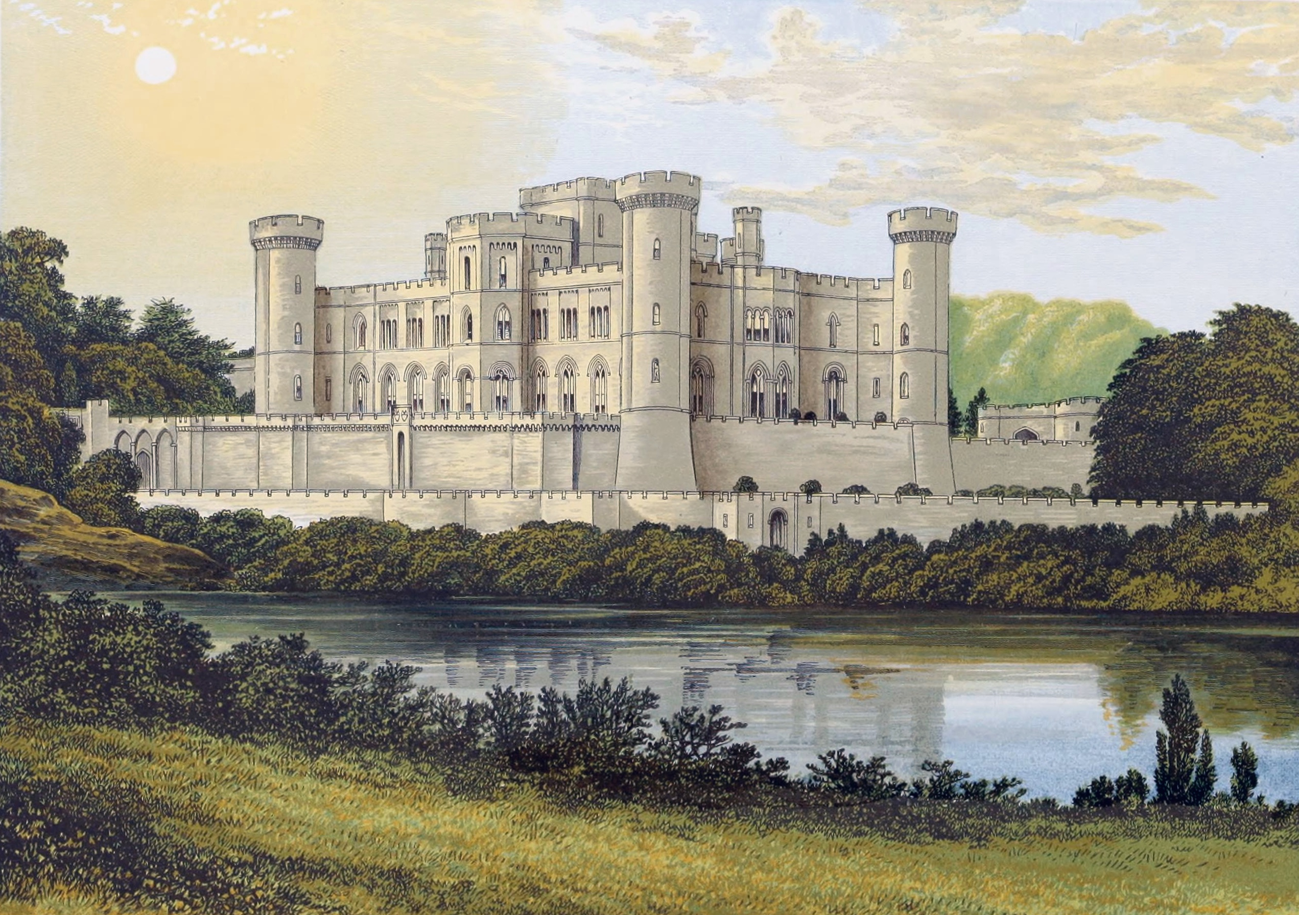 Eastnor Castle in Herefordshire, England from Morris's Country Seats (1880).